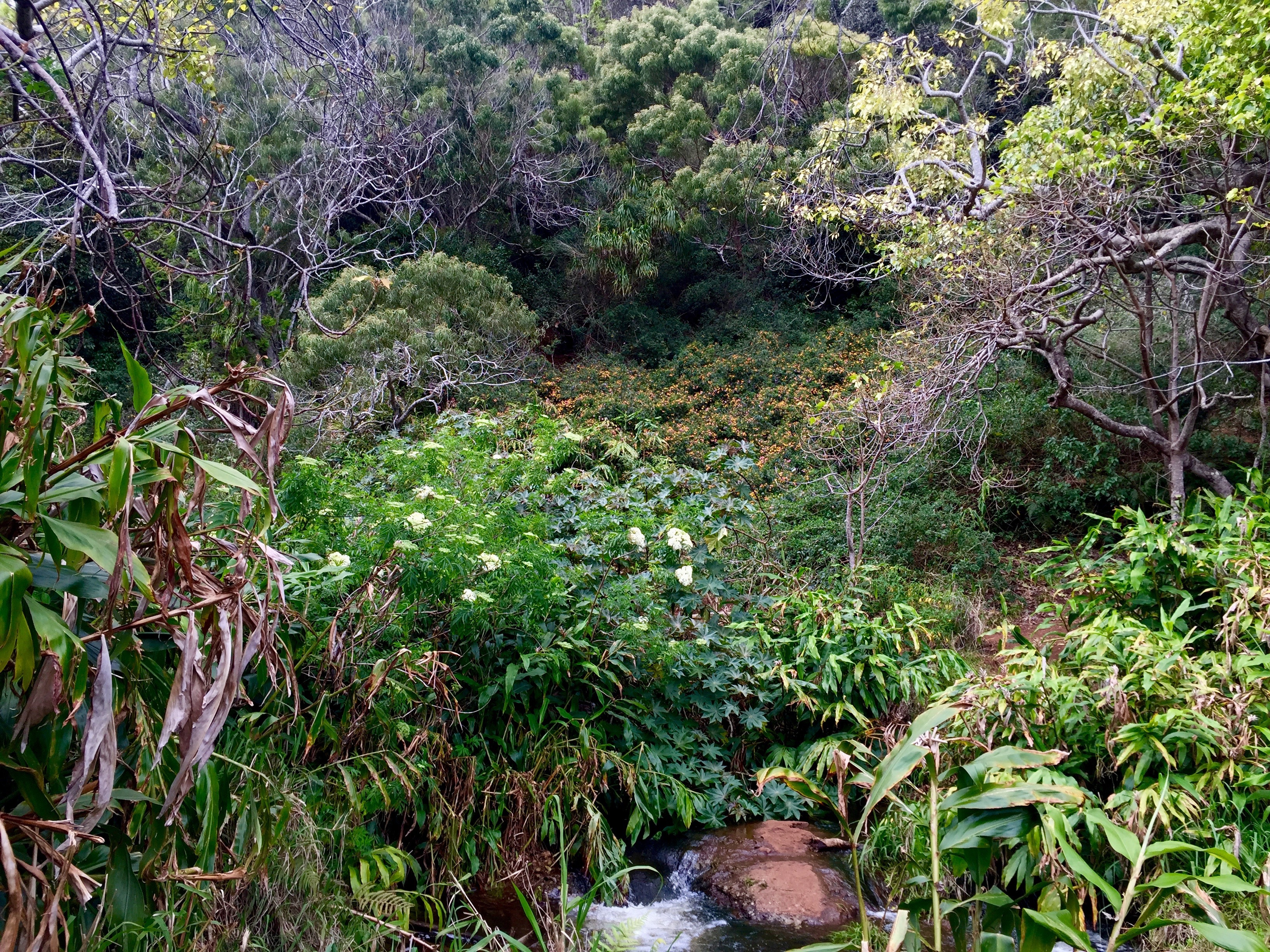 Vegetation at Waipo'o Falls along the Canyon Trail, Koke'e State Park, Kauai.